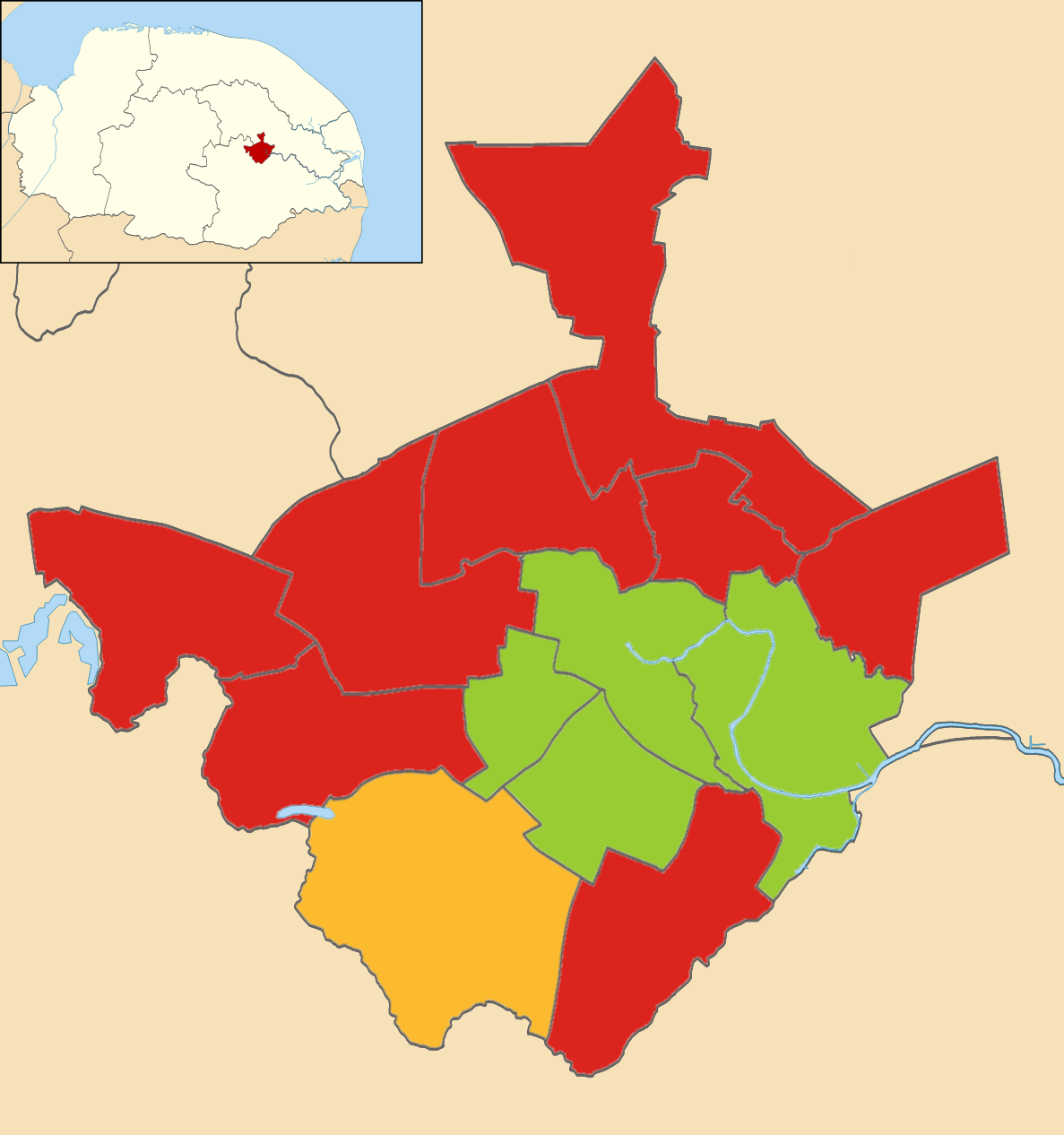 Results of the 2015 local elections in Norwich Colours: Labour Liberal Democrat Green Party